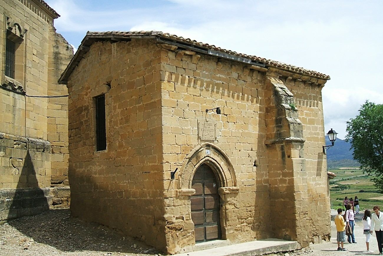 Ermita de la Vera Cruz, junto a la Iglesia parroquial de Santa María la Mayor, San Vicente de la Sonsierra, La Rioja, España/Spain